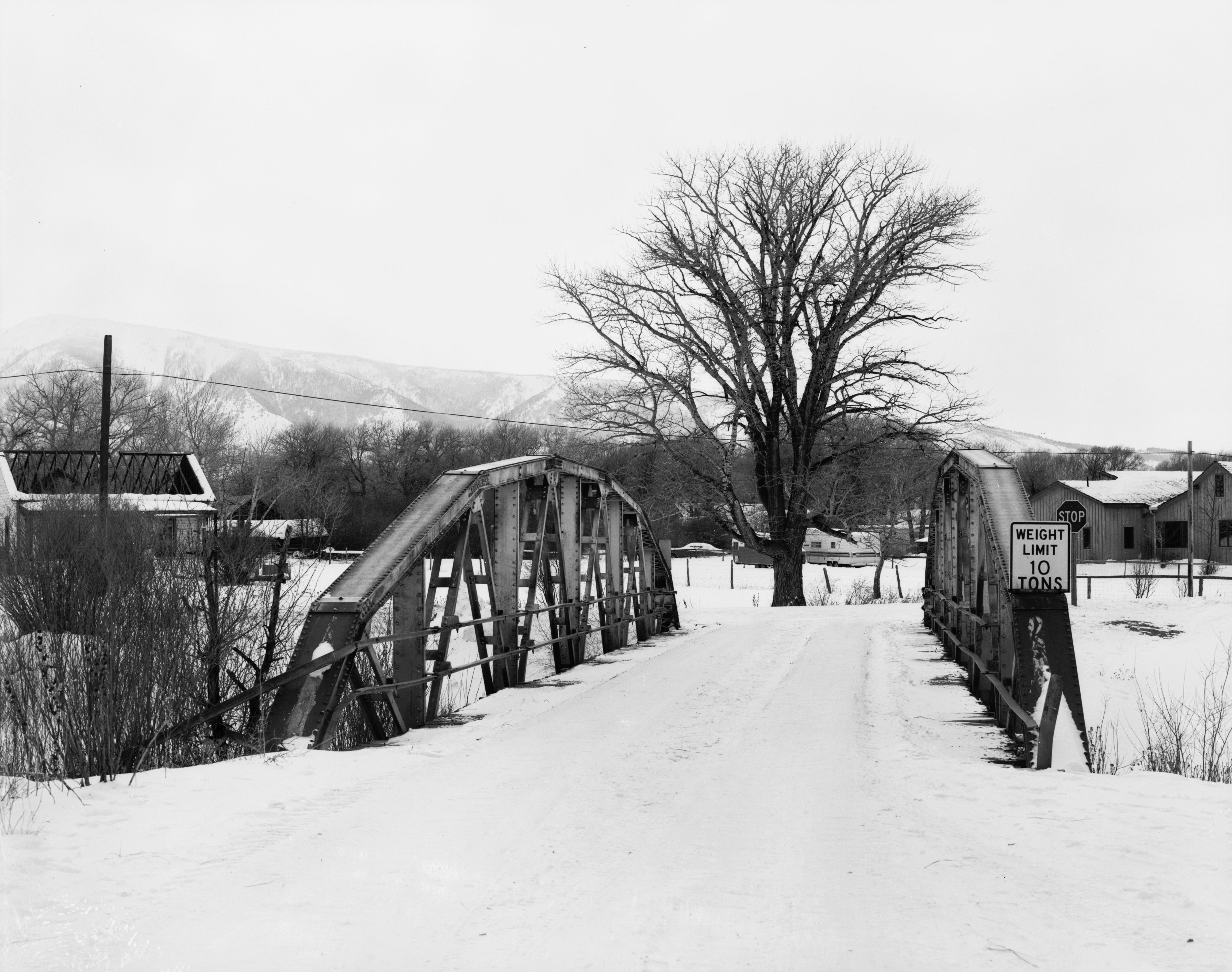 Eastern end of the DFU Elk Mountain Bridge (also known as the "Medicine Bow Bridge"), which carries County Road 120-1 over the Medicine Bow River at Elk Mountain in Carbon County, Wyoming, United States. Built in 1923, this hybrid pony truss bridge is listed on the National Register of Historic Places.